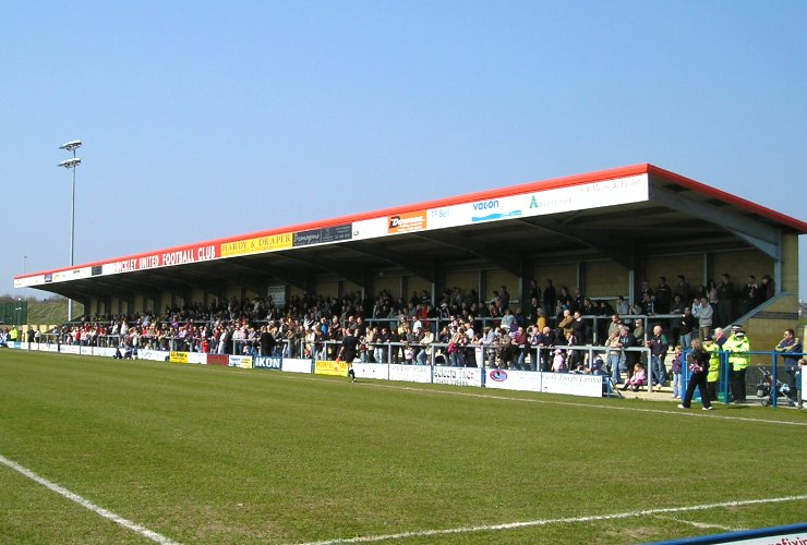 Image of the Tom Powers North Stand at Hinckley United